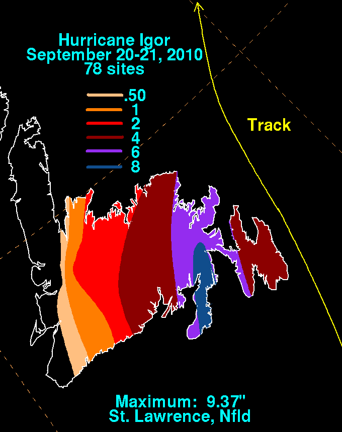 Storm total rainfall map of Hurricane Igor during September 2010.